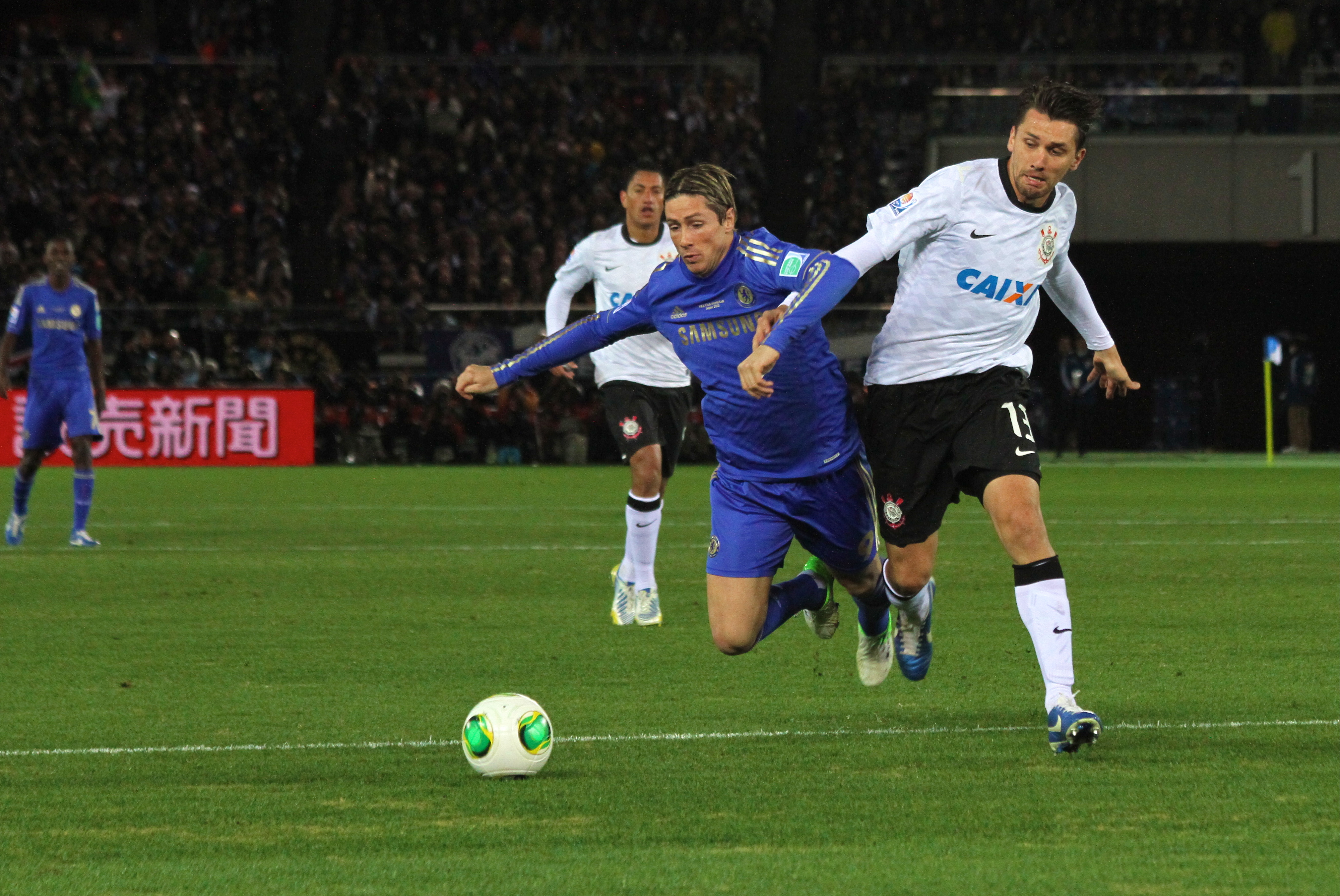 At the 2012 FIFA Club World Cup